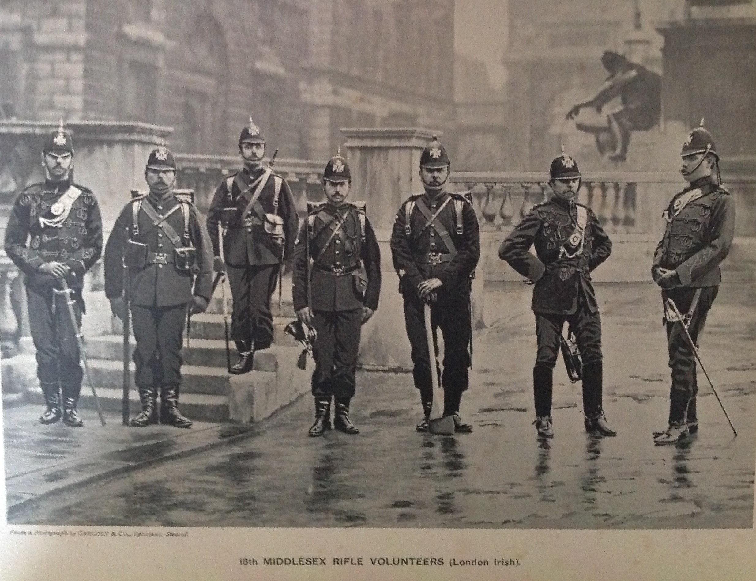 Group, 16th Middlesex Rifle Volunteers (London Irish). Taken from Col C Cooper-King, The British Army and Auxiliary Forces, published by Cassell and Company Ltd, London, c1895